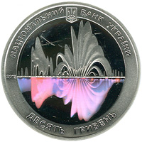 The obverse of commemorative silver coin of Ukraine "650 years of the first written mention of the Vinnitsa" (2013)